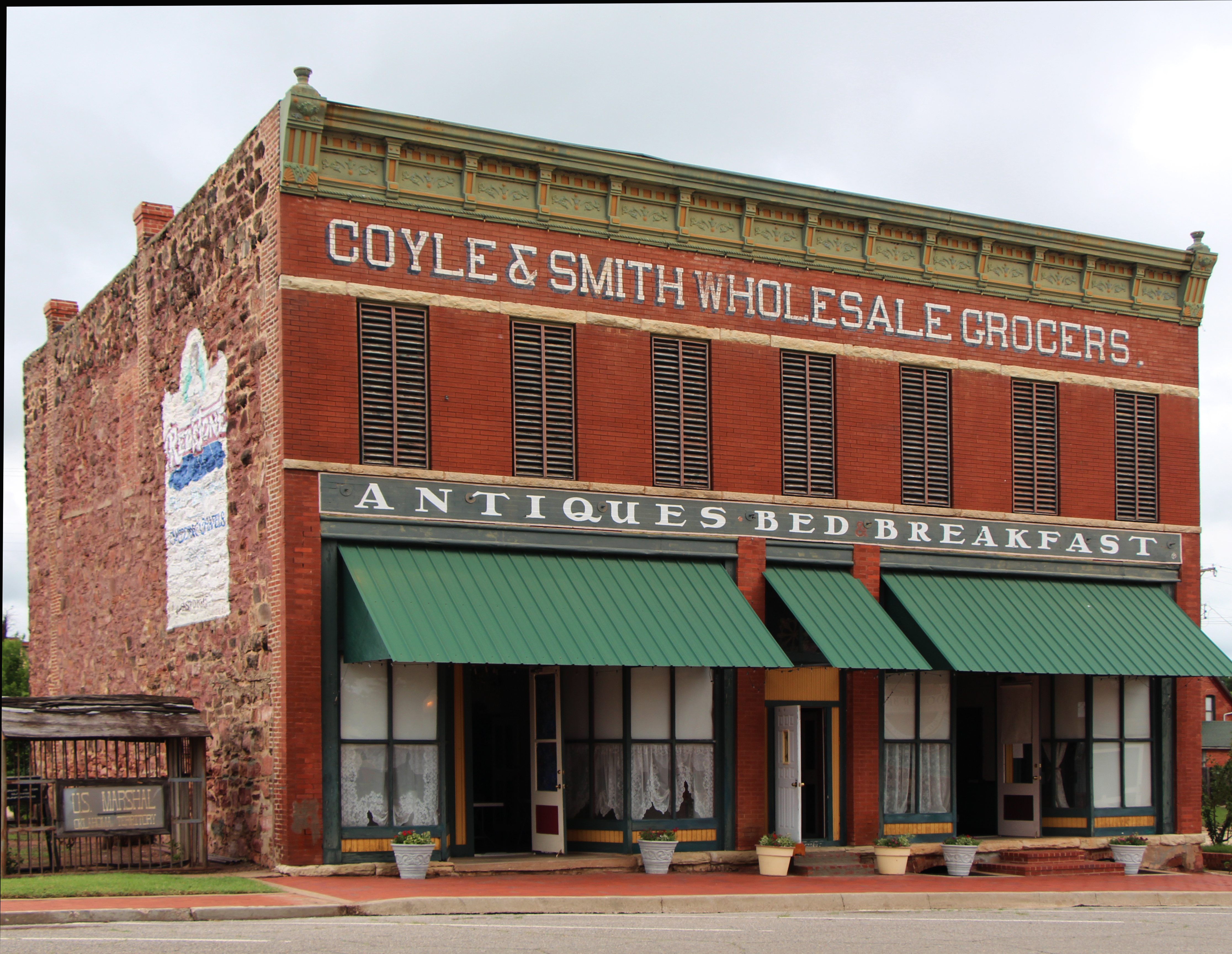 Coyle & Smith Building, Guthrie, Oklahoma